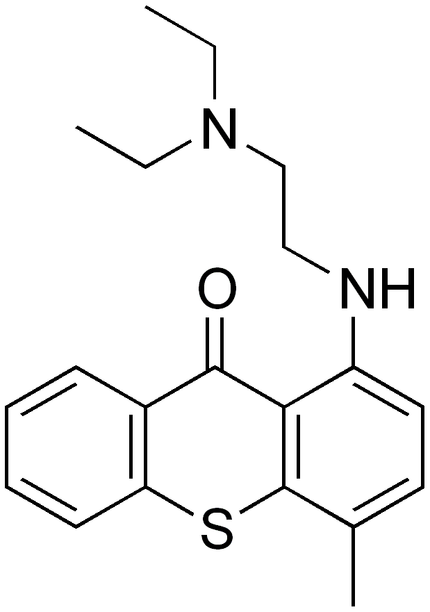 chemical structure of lucanthone